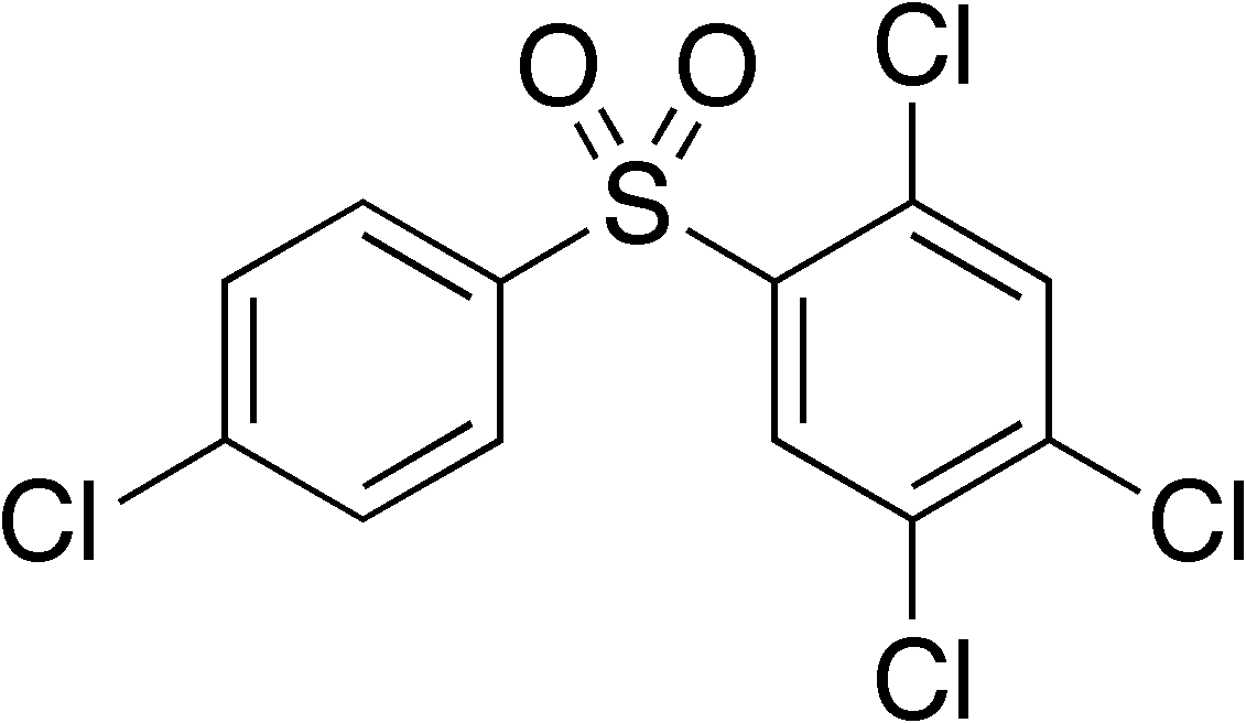 chemical structure of tetradifon